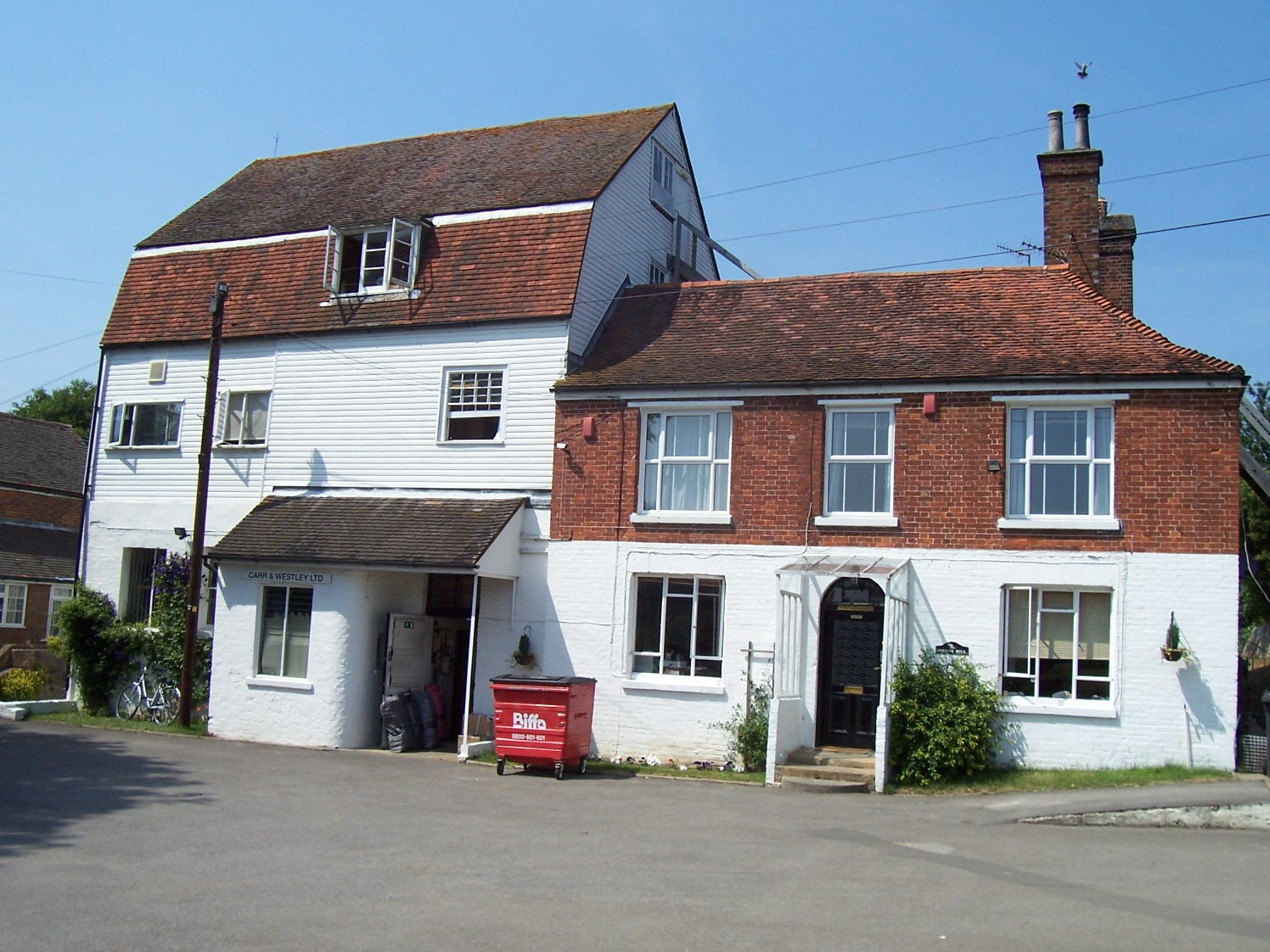 Bourne Mill, Hadlow, the home of Carr & Westley ltd, since they moved down from Holborn, London during the Blitz.